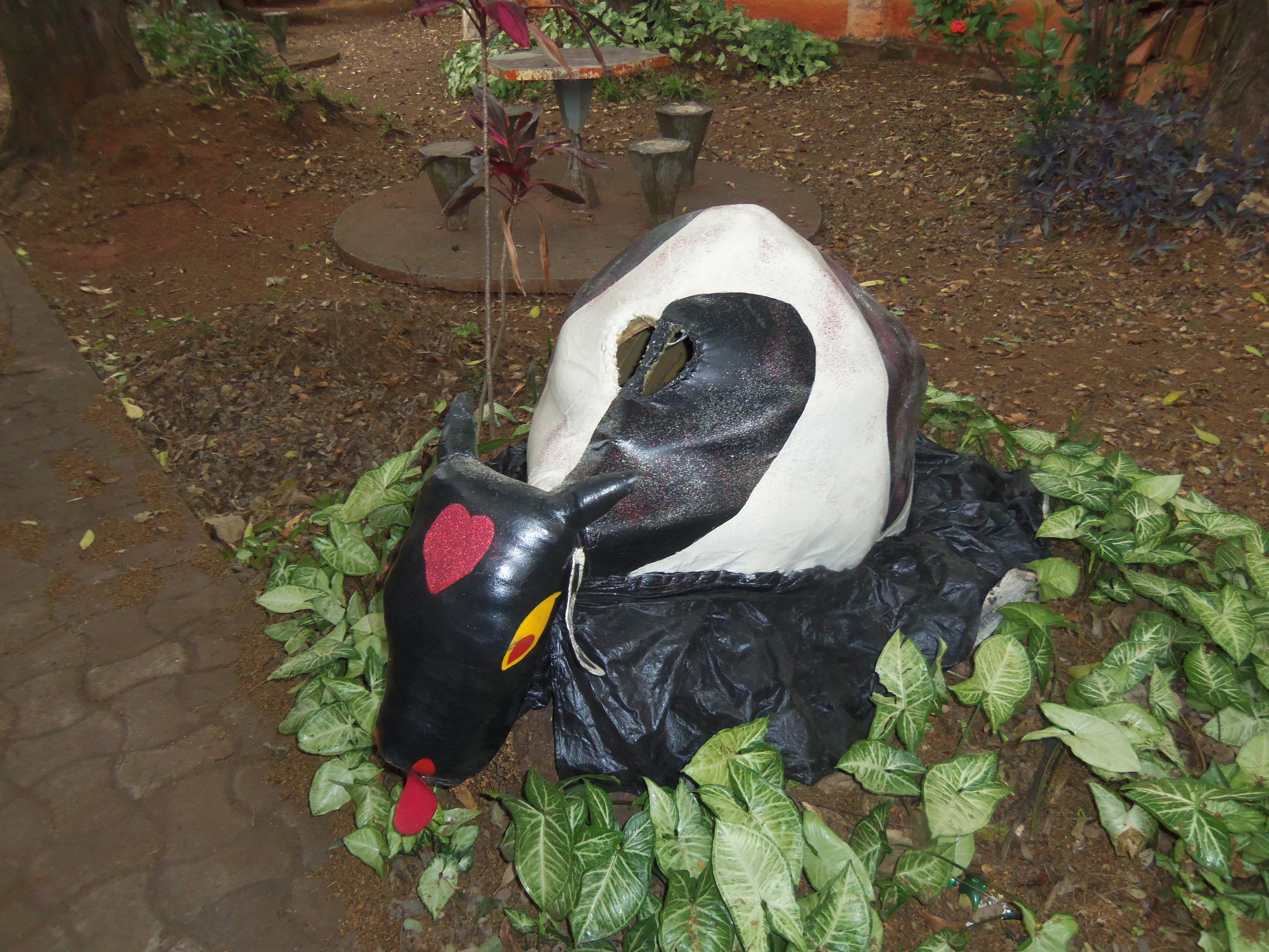 Kitty used to block child "Children of the cow."